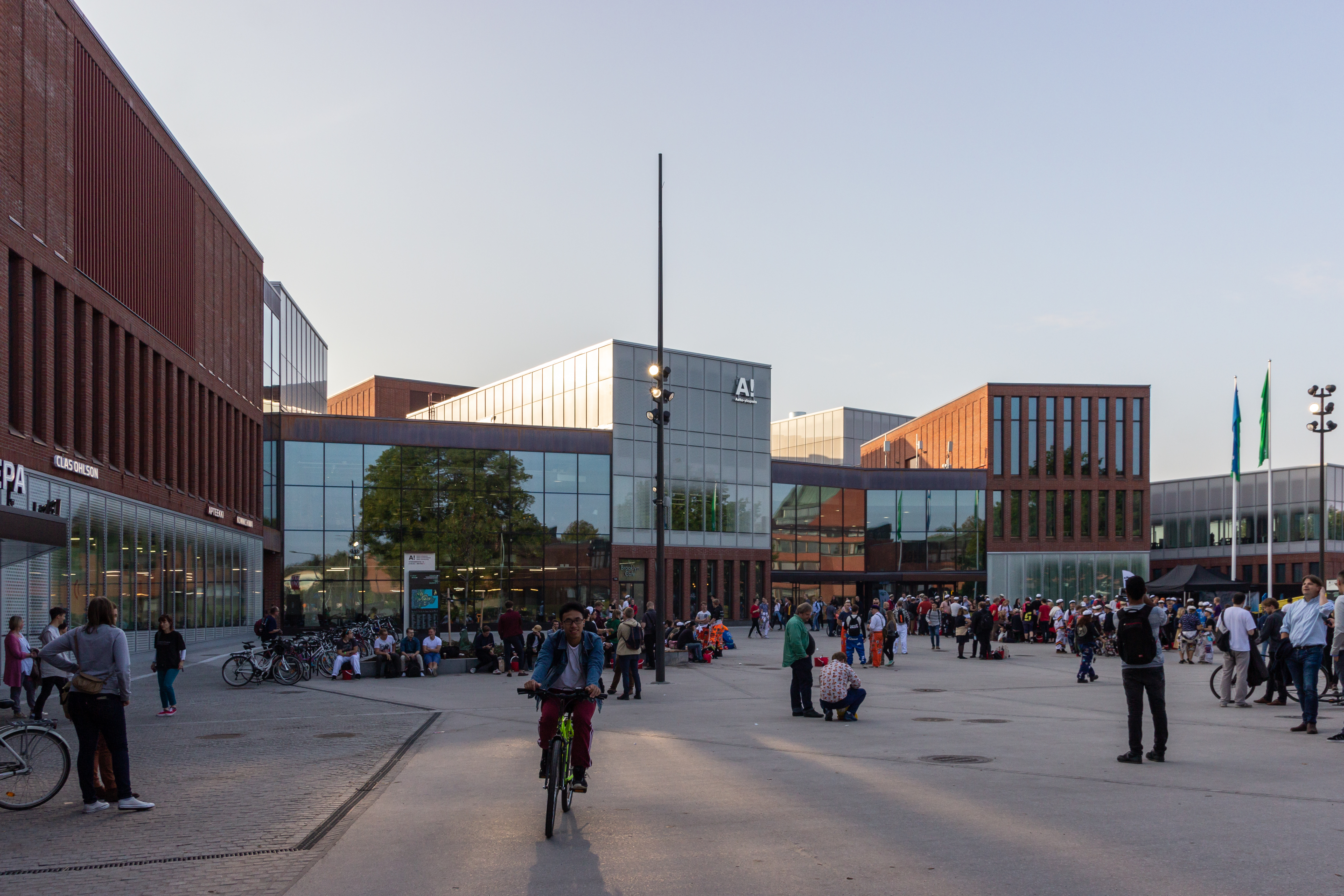 Korkeakouluaukio plaza and the recently opened Väre building in Aalto University's Otaniemi Campus.